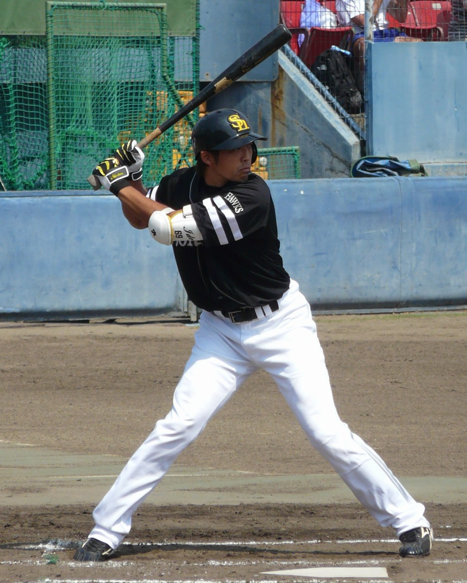 Shotaro Ide, outfielder of the Fukuoka SoftBank Hawks, at Nagoya Baseball Stadium.